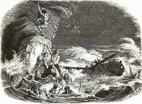 Picture of the wreck of the Halsewell, an East Indiaman that was wrecked on the rocks near Seacombe, on the Isle of Purbeck, Dorset, England on 6 January 1786. From an 1813 account of the disaster. Attempts to show all aspects of what happened.